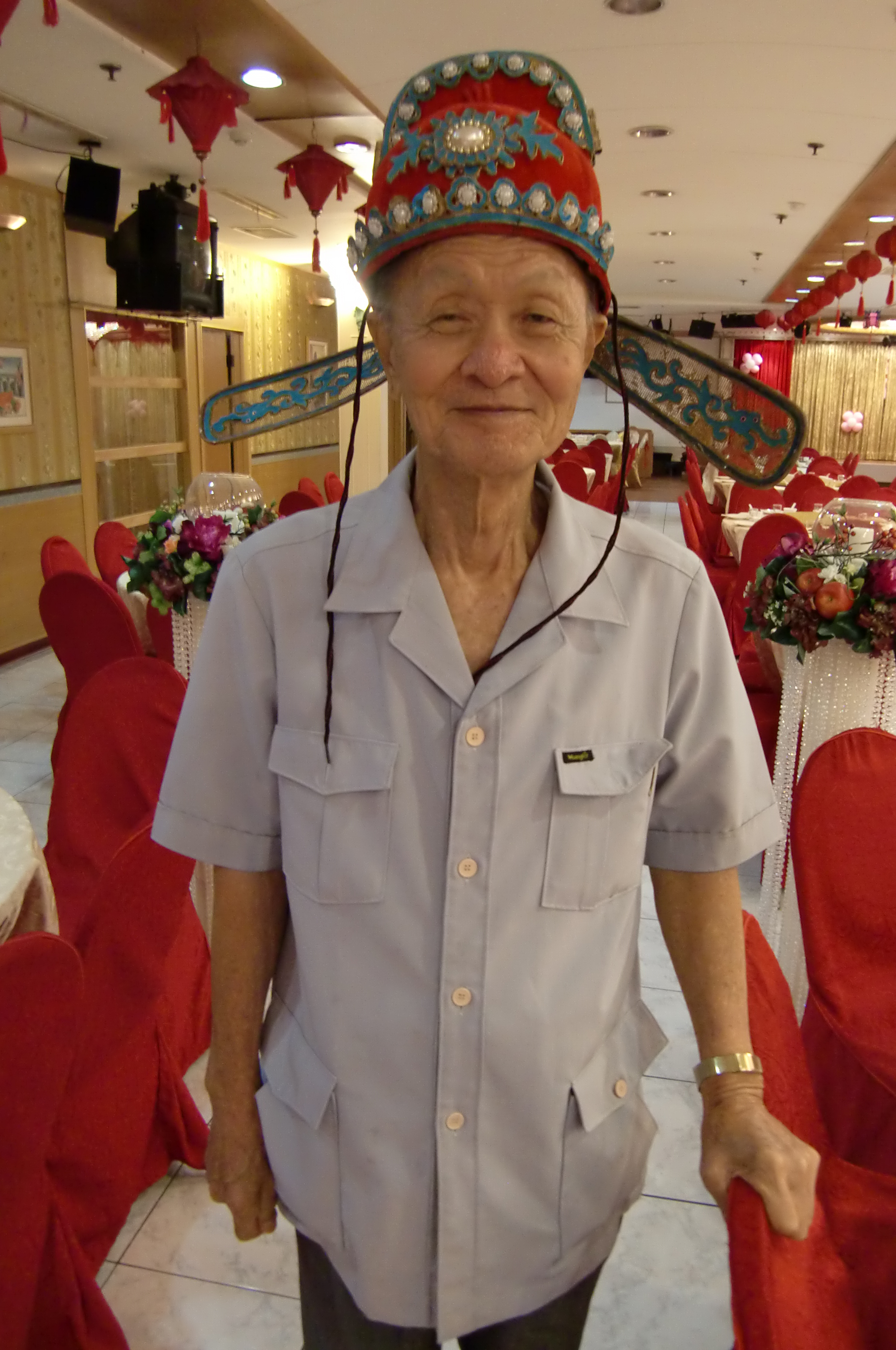 My grandfather 林榮國